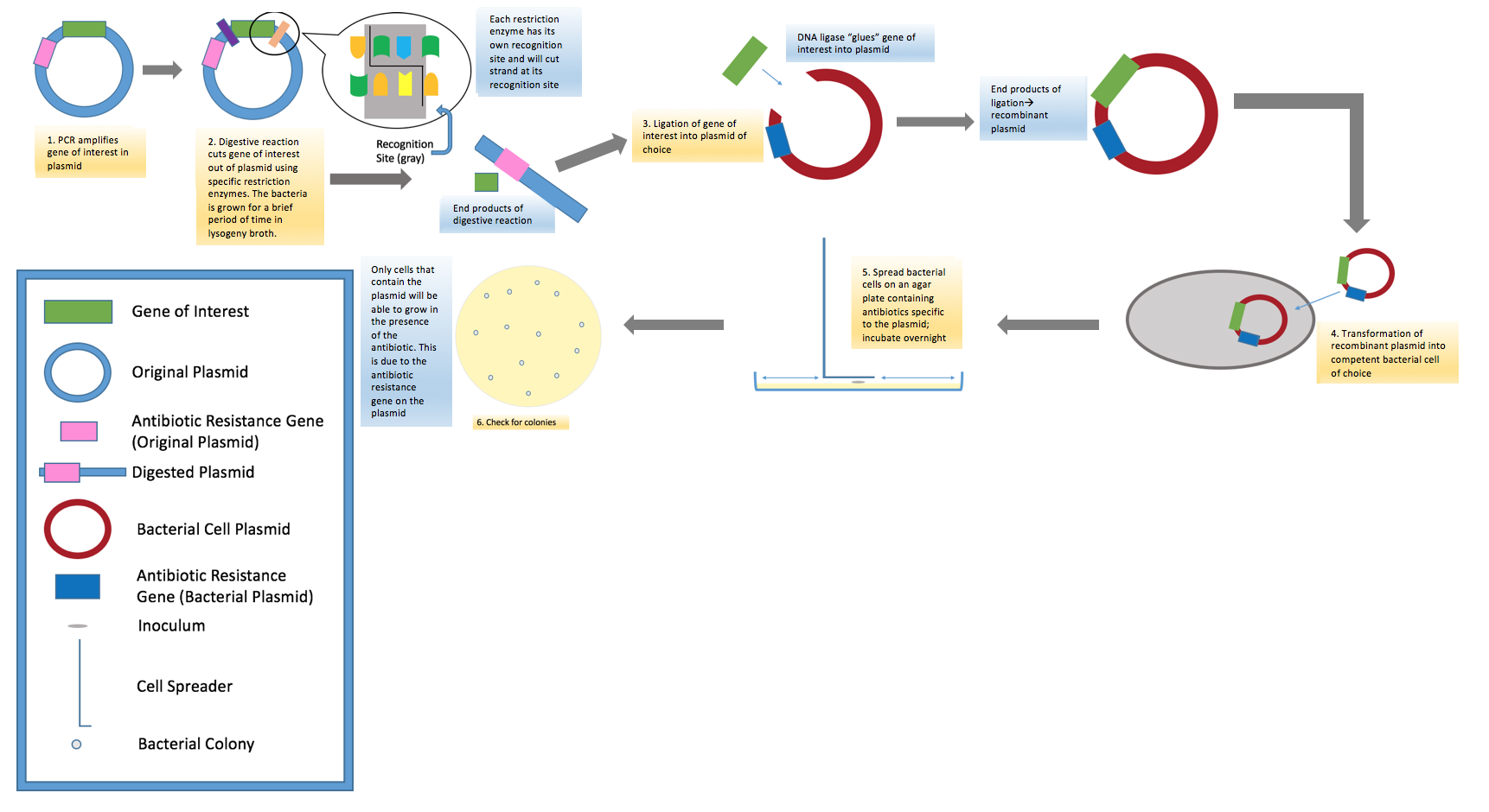 The overall goal of molecular cloning is to take a gene of interest from one plasmid (original plasmid) and insert it into another plasmid (recombinant plasmid) and have that plasmid replicate inside a host cell (usually a bacterial cell, but can be a eukaryotic cell). First, the gene of interest is (1) amplified using PCR then (2) cut out of the plasmid using restriction enzymes that will only cut a particular sequence of nucleotides. This results in a separate linear vector and insert. The gene of interest is then (3) inserted into another vector using DNA ligase. This acts to glue the insert into the vector, resulting in a recombinant plasmid. This plasmid is then (4) transformed into a competent bacterial cell. The bacteria is then grown for a brief time in lysogeny broth and (5) spread onto an agar plate and incubated overnight. This plate contains a specific antibiotic. The recombinant plasmid contains a gene (antibiotic resistance gene) that allows the bacteria to grow on the plate. The plates are then checked (6) for colonies. Only the bacterial cells that were successfully transformed will contain the plasmid with the antibiotic resistance gene and be able to colonize. Reference